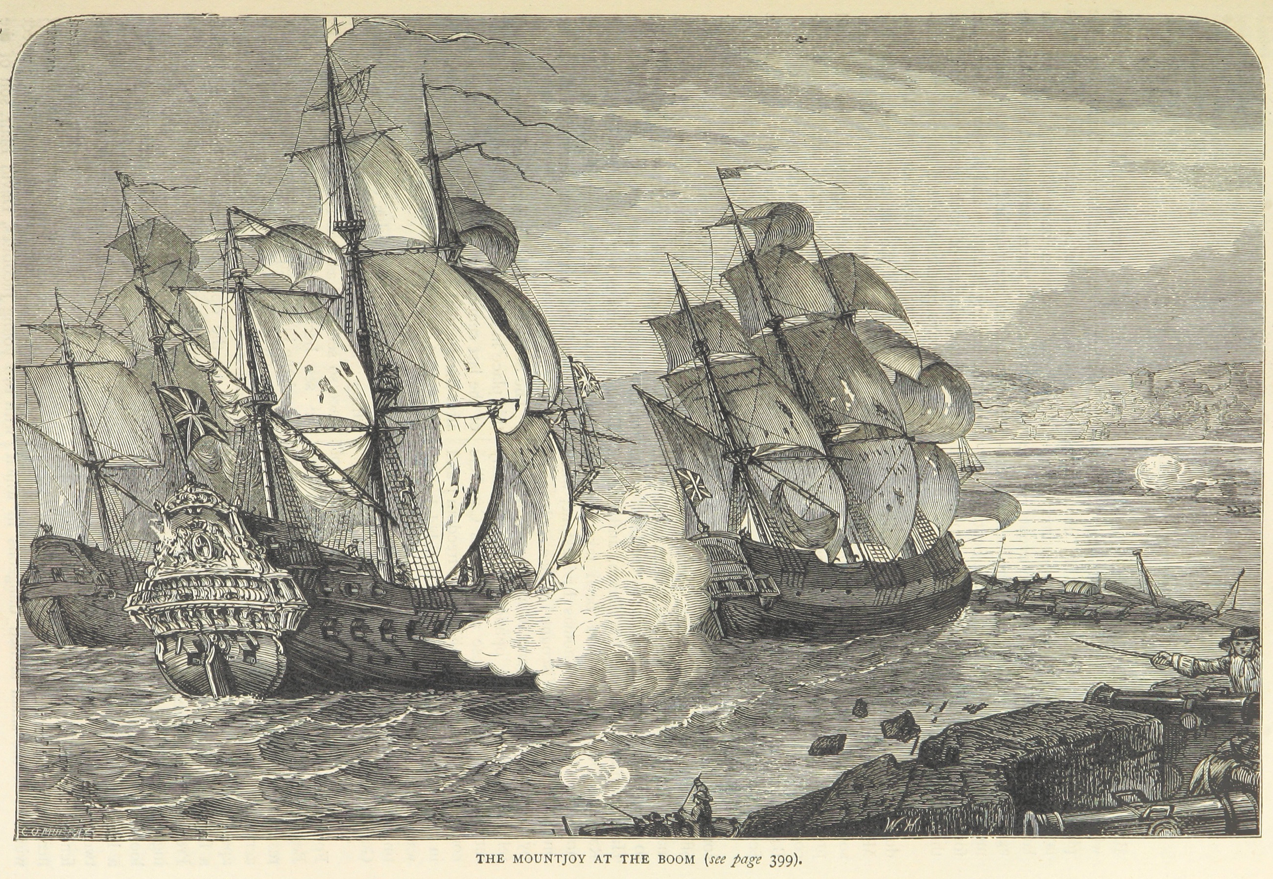 The armed merchant ship Mountjoy breaks through the defensive boom to relieve the Siege of Derry.